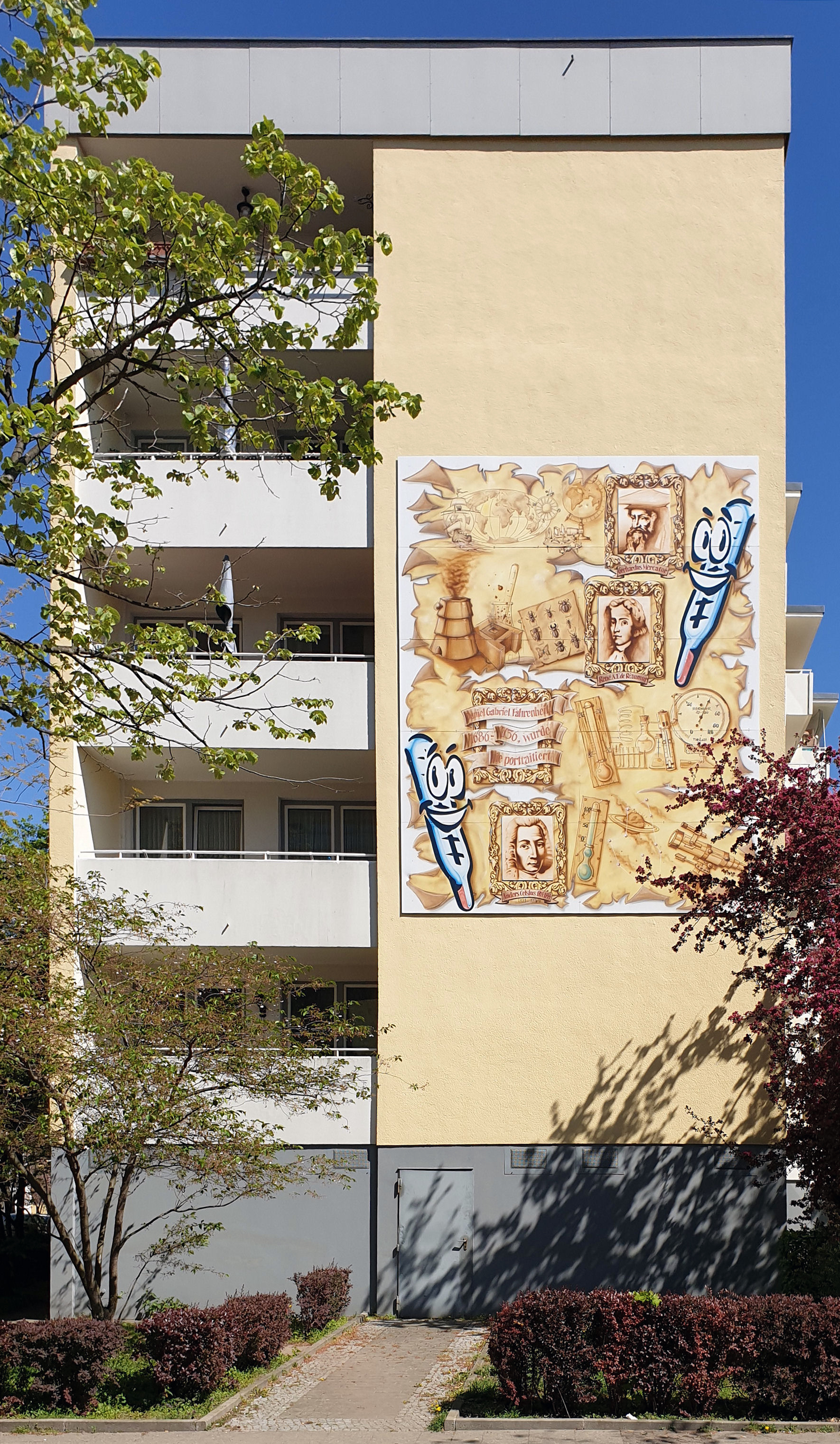 Murals, Thermometersiedlung, Fahrenheitstraße 27, Berlin-Lichterfelde, Germany